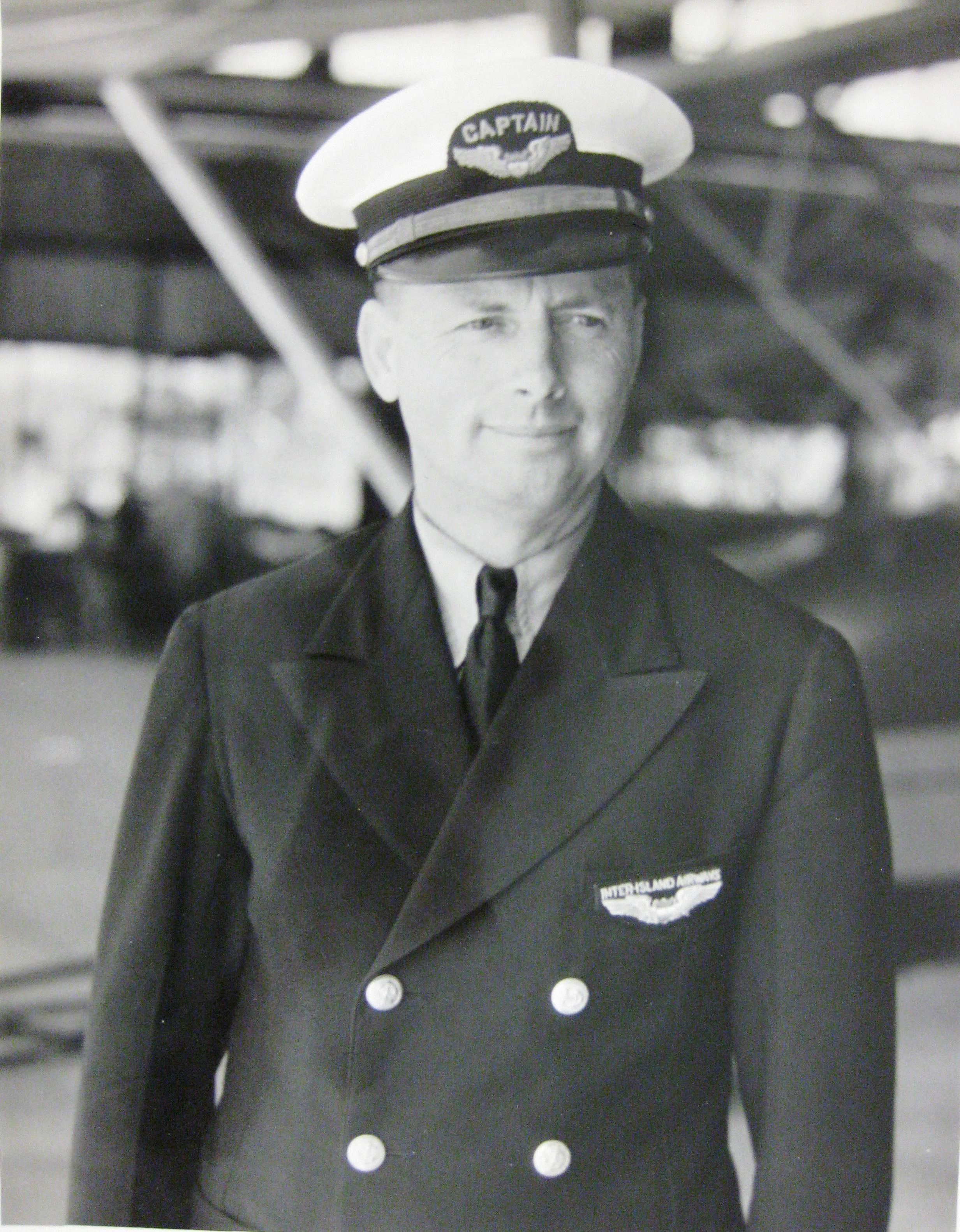 Profile picture of Charles Irving "Sam" Elliott, pioneer aviator in Hawaii